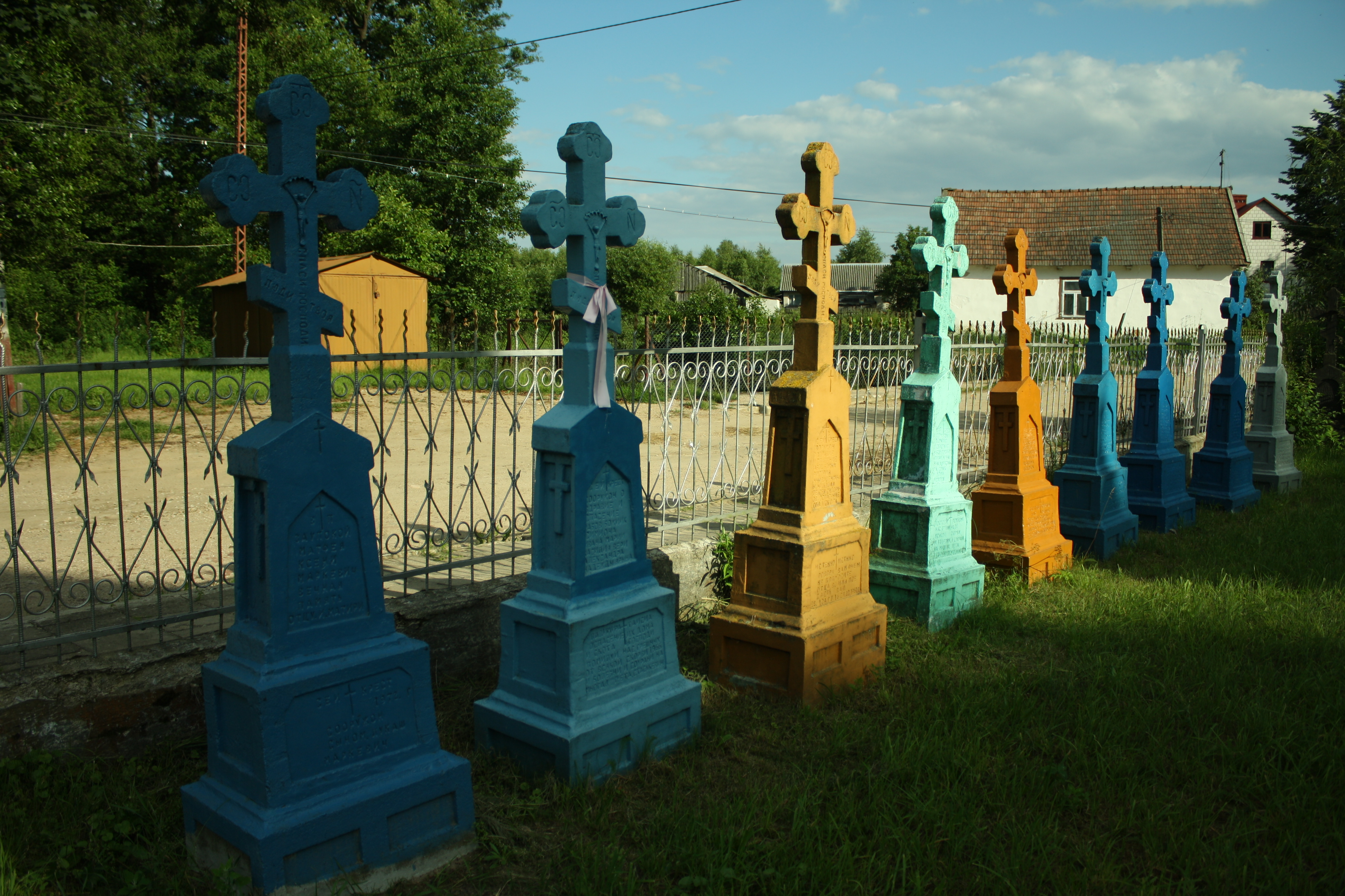 Dobrowoda (Podlasie Voivodeship), Orthodox gravestones